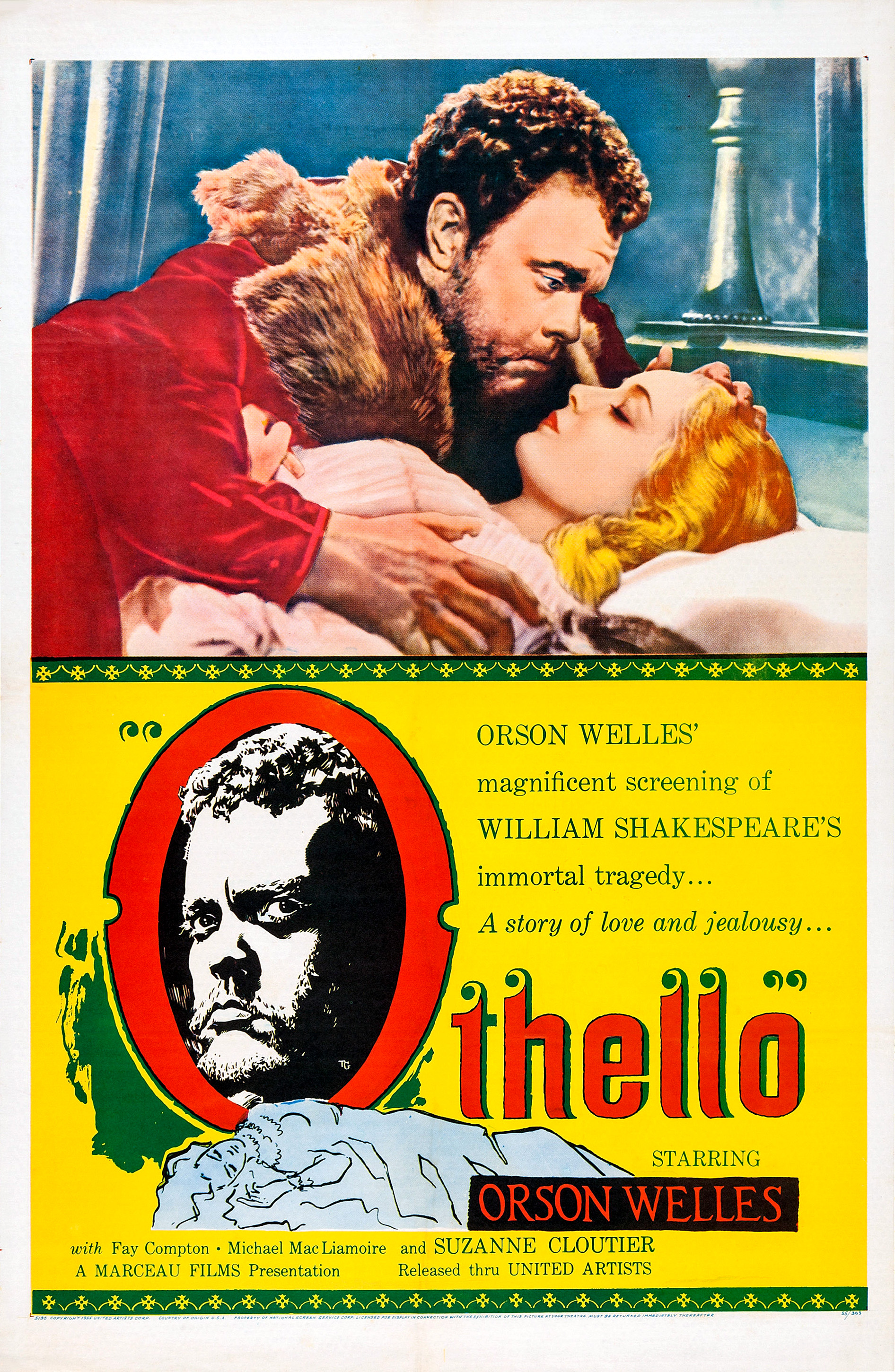 American theatrical release poster for Orson Welles' film Othello. The film premiered in Rome in 1951, but was not released in the United States until 1955.